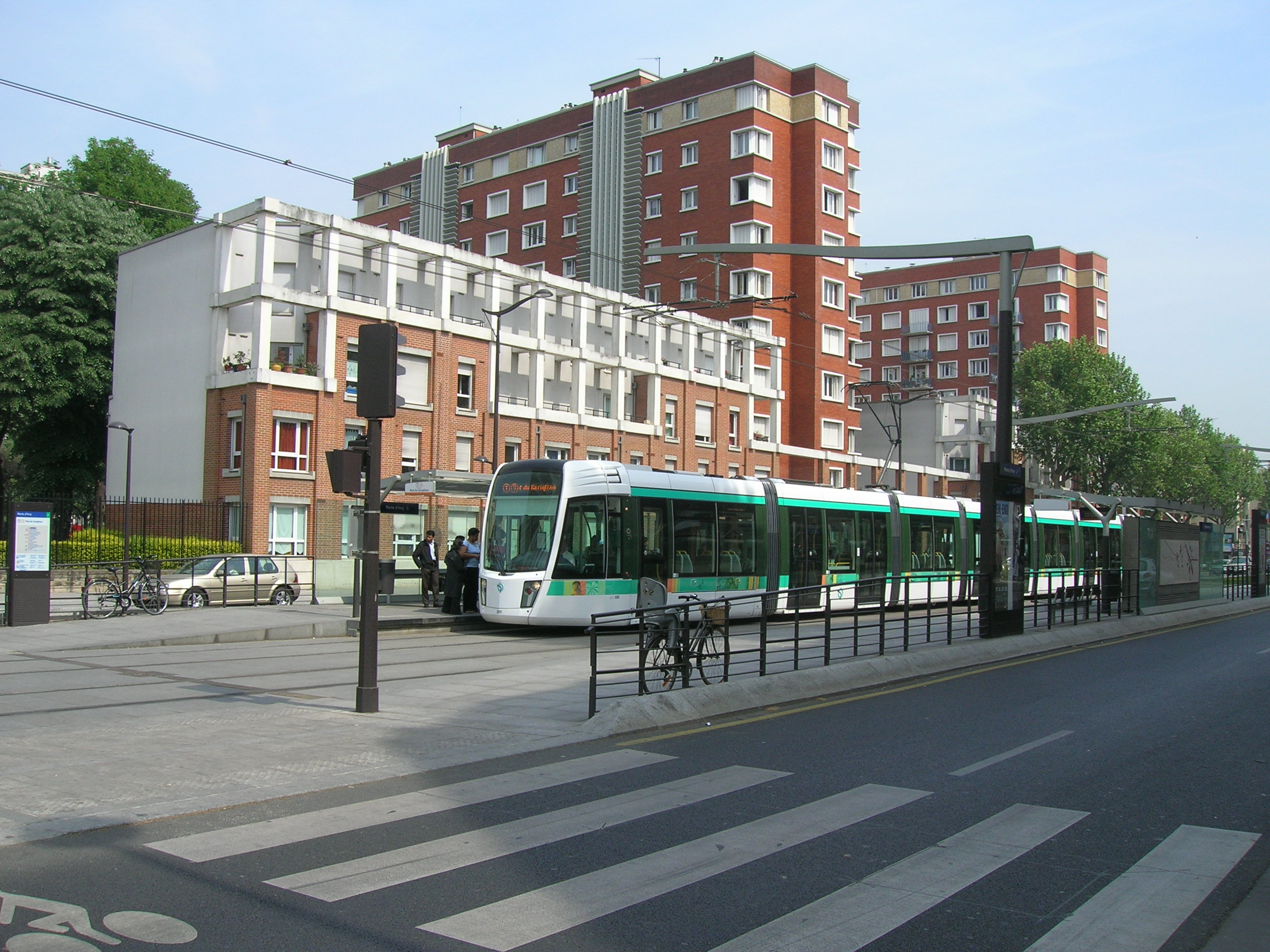 Station de tramway Porte d'Ivry ligne T3, Paris